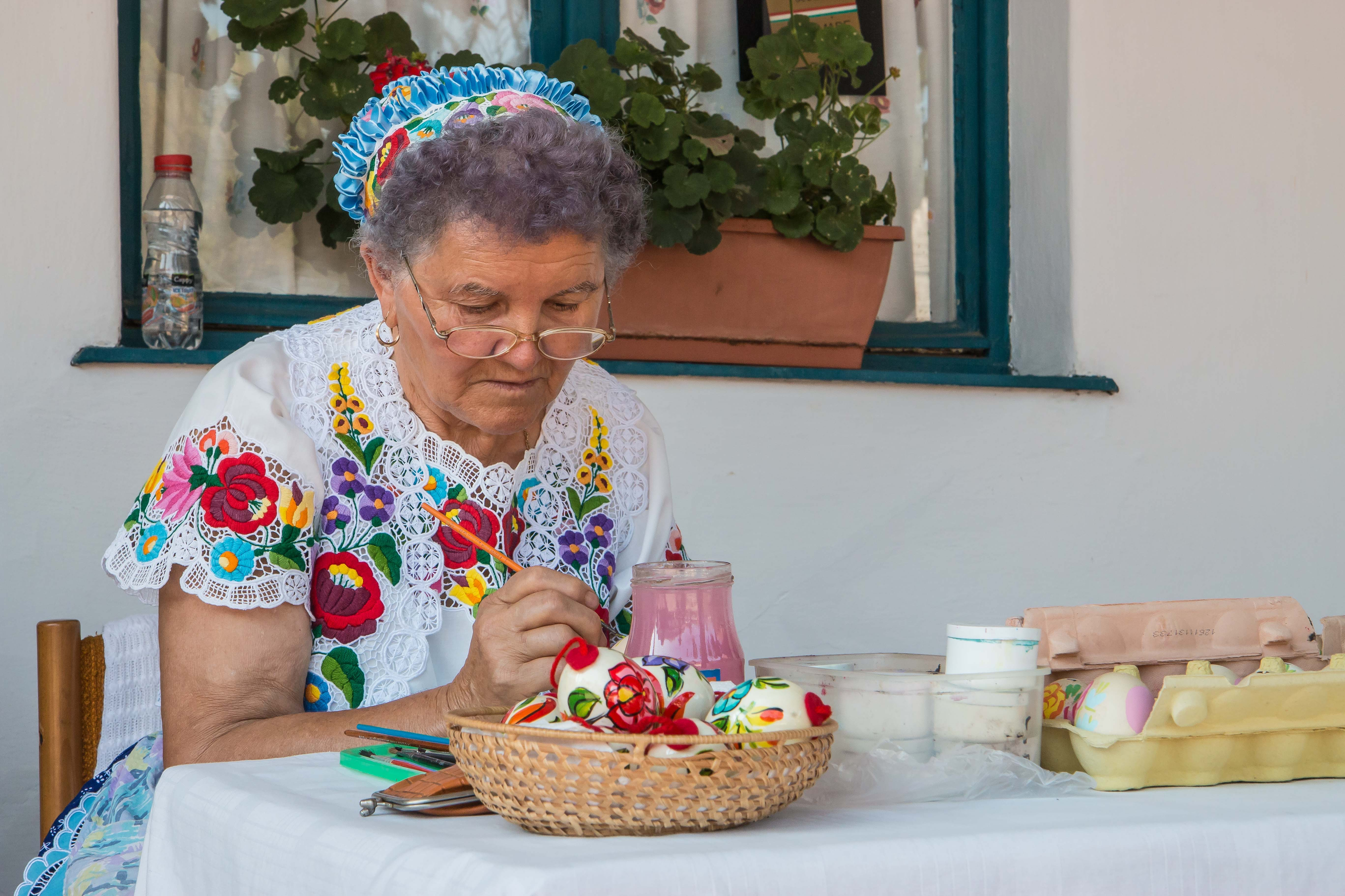 A woman from Kalocsa, wearing a Kalocsa-style embroidered blouse.